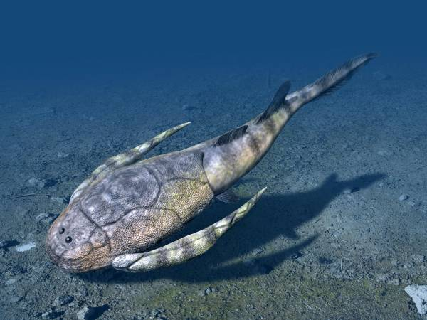 Life reconstruction of Bothriolepis canadensis